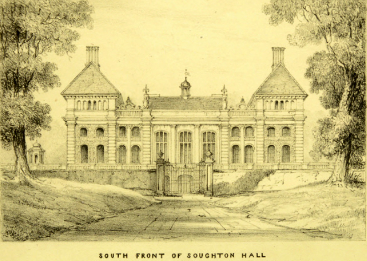 South Front of Soughton Hall in about 1830